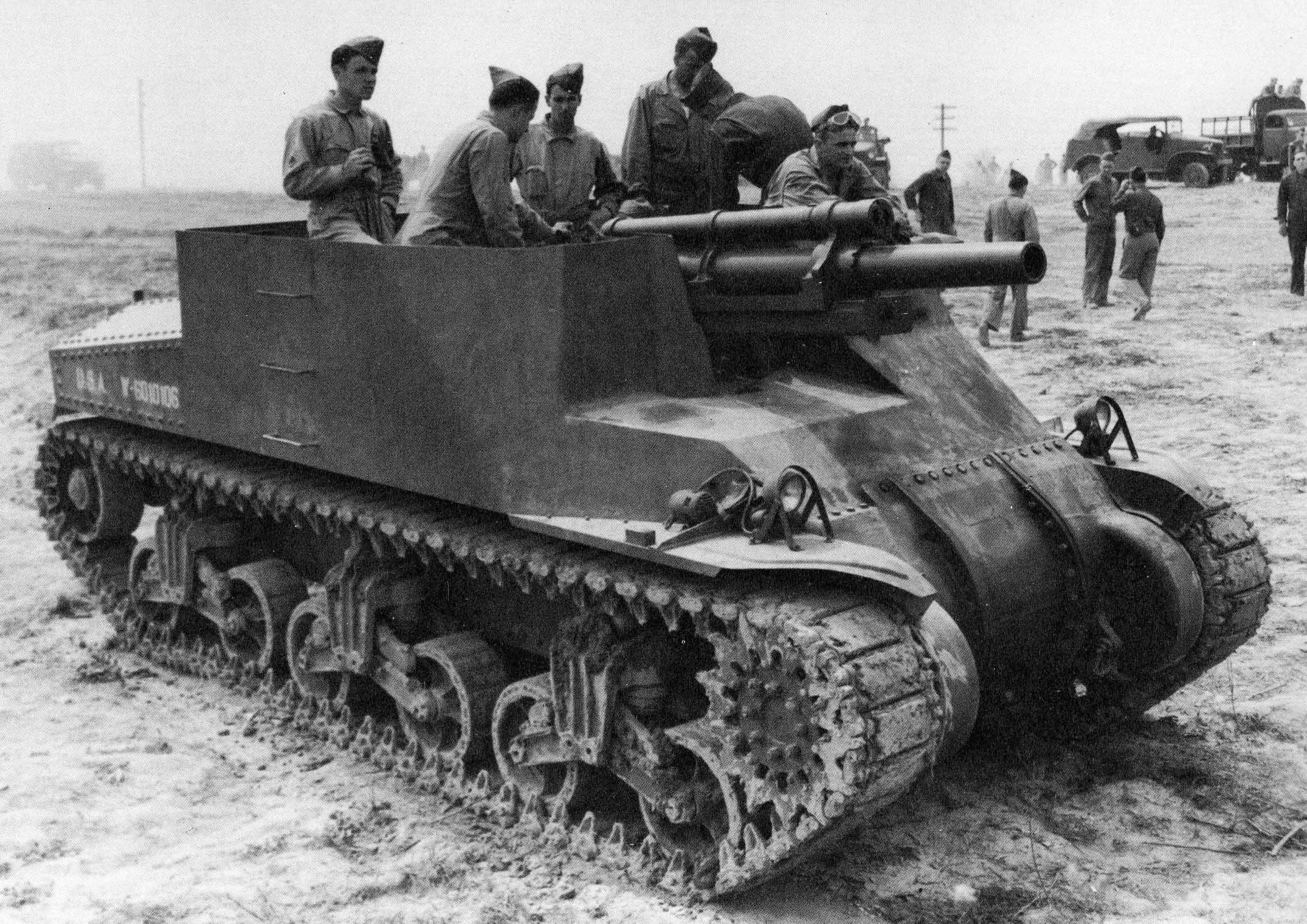 T32 (M7) Howitzer Motor Carriage first pilot during tests at Fort Knox